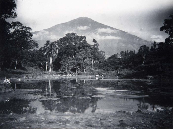 Lake at the foot of the Cereme (or Ciremai) volcano